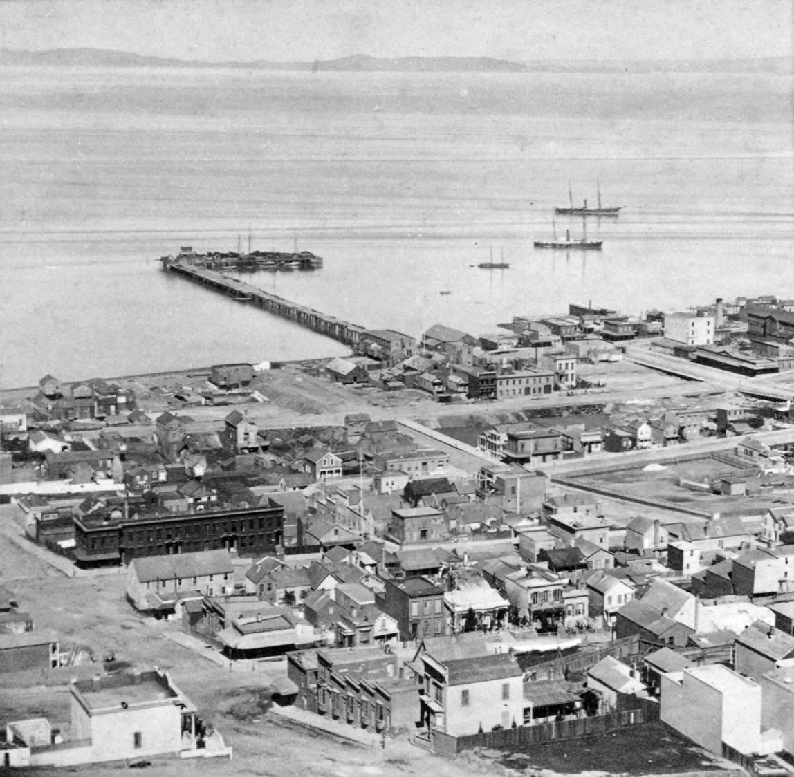 Meiggs Wharf, North Beach in San Francisco. Viewed from Russian Hill.